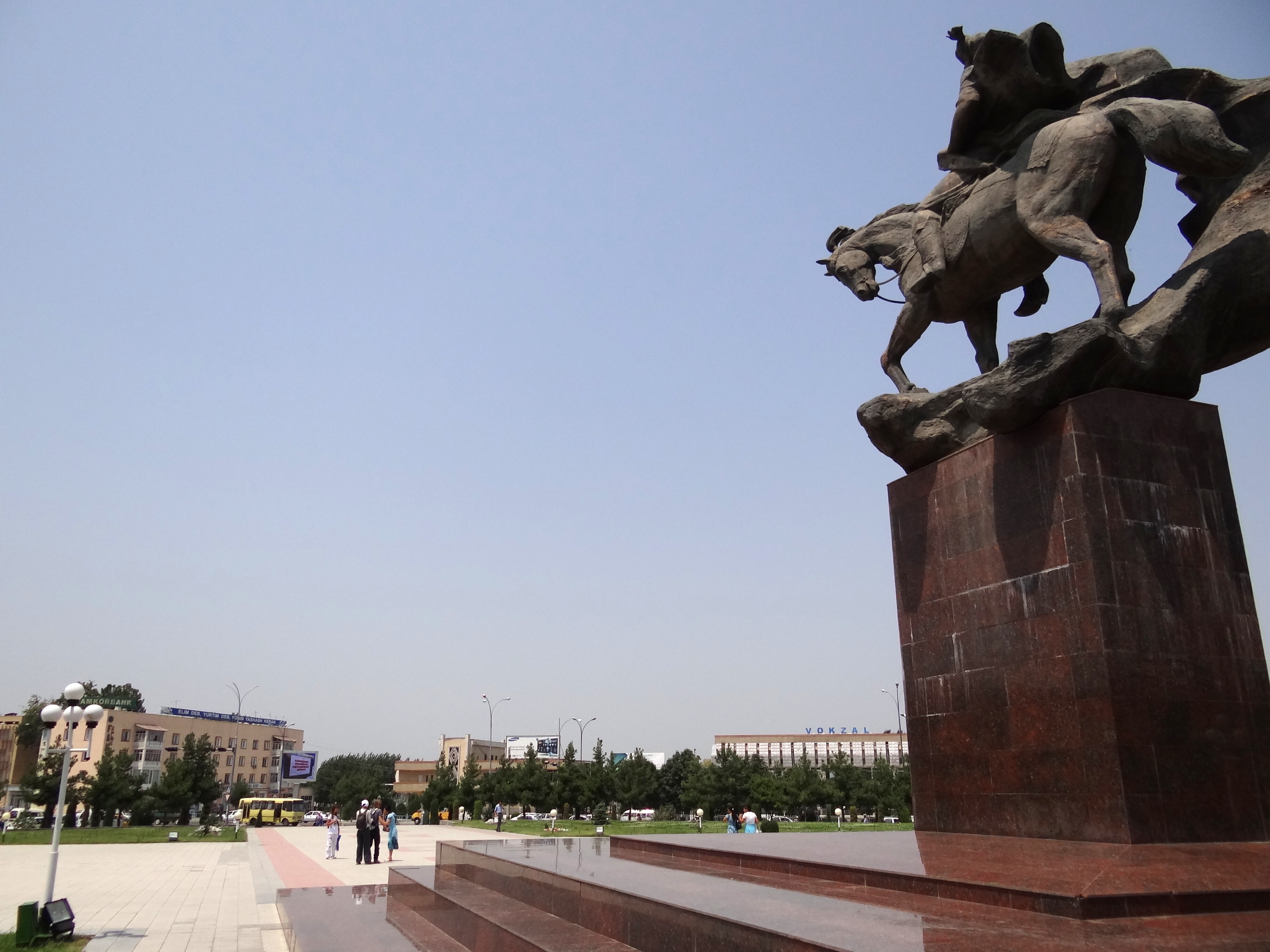 Navoi Square (Formerly Bobur Square) - Where 2005 Massacre Took Place - Andijon - Uzbekistan